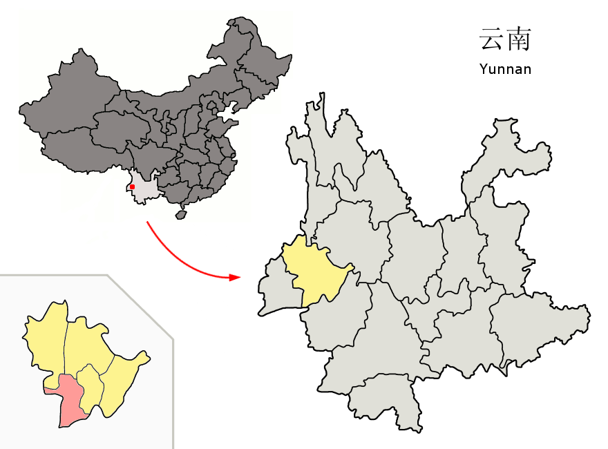 Location of Longling County (pink) and Baoshan Prefecture (yellow) within Yunnan province of China Map drawn in september 2007 using various sources, mainly : Yunnan province administrative regions GIS data: 1:1M, County level, 1990 Yunnan Counties map from